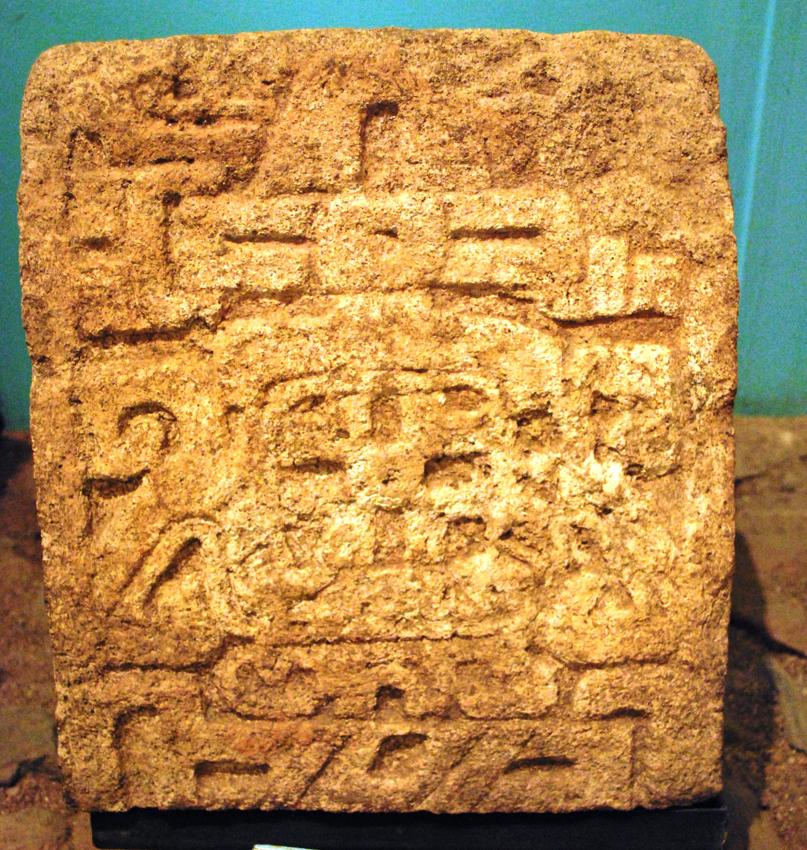 One of the gravestone found in Tomb 5 of the Cerro de las Minas archeological site. On display at the Regional Museum of Huajuapan in Huajuapan, Oaxaca